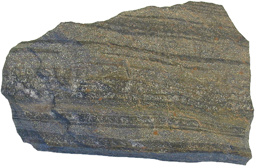 See Image:Banded_iron_formation.jpg